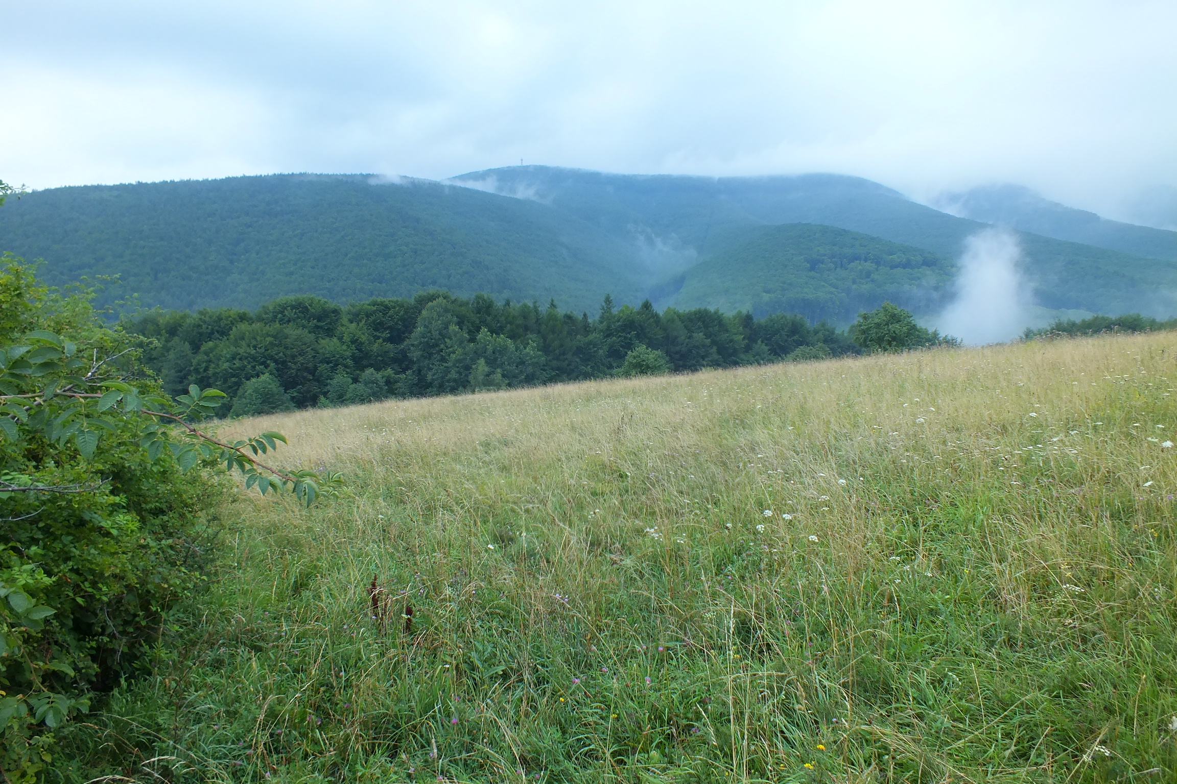 Natural monument Mechnáčky near the village of Strání in the Protected Landscape Area of White Carpathians, the Czech Republic.